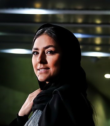 Hoda Zeinolabedin